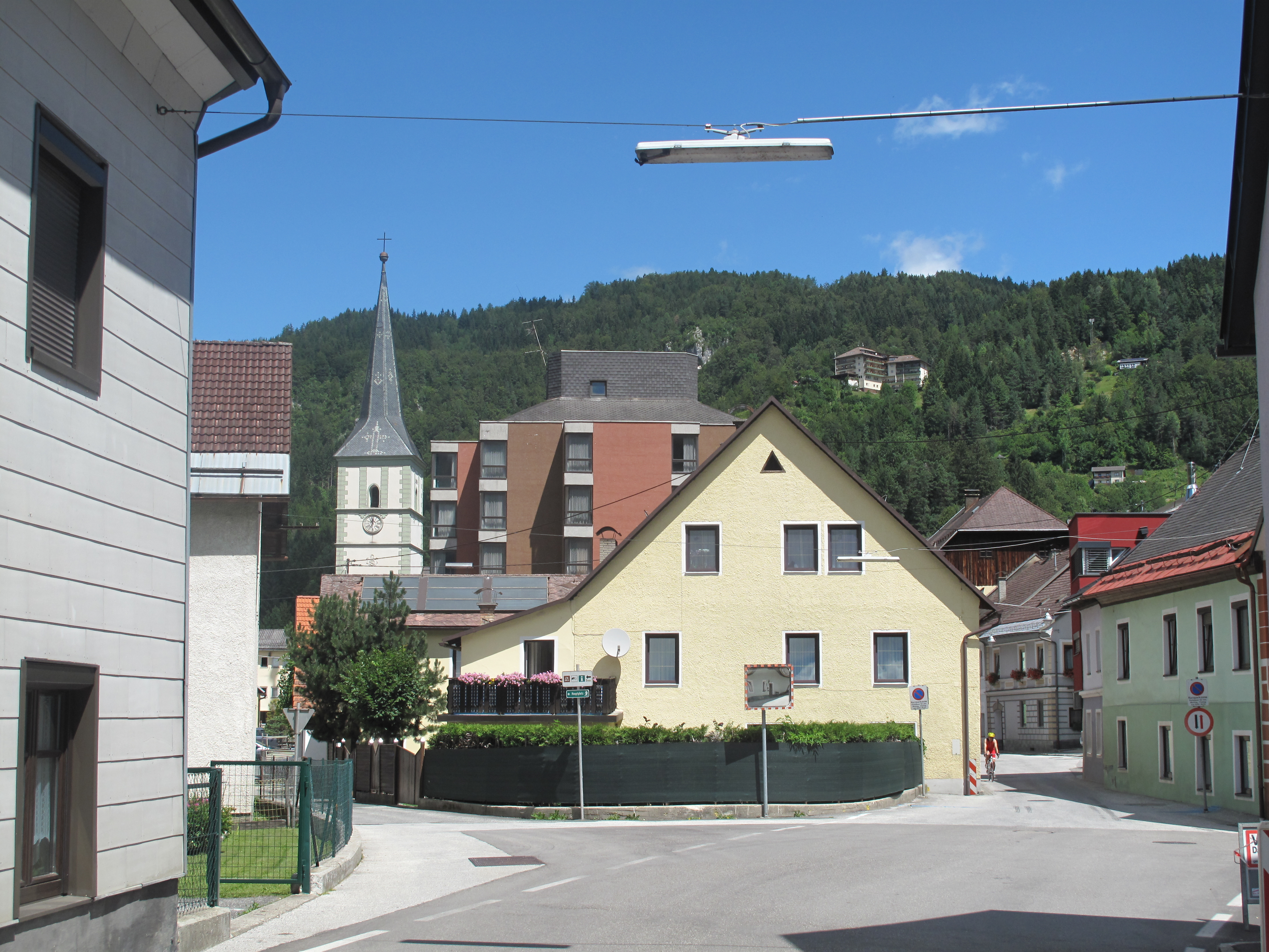 Bad Eisenkappel, church tower in the street